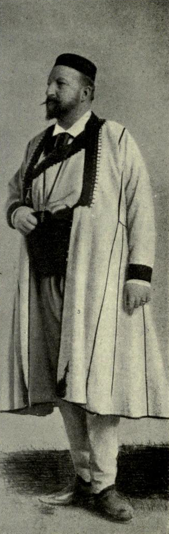 Bulgarian Tzar Ferdinand in national costume.